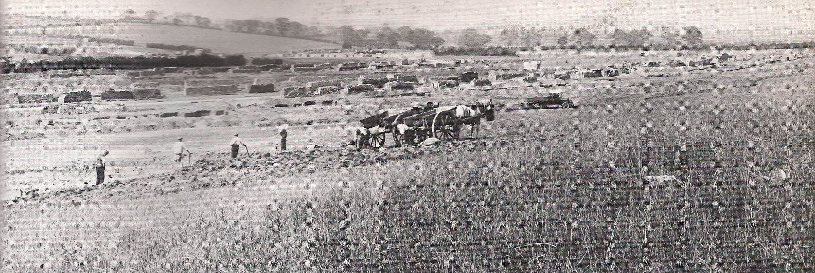 Warren Farm Estate, Kingstanding, September 1929.